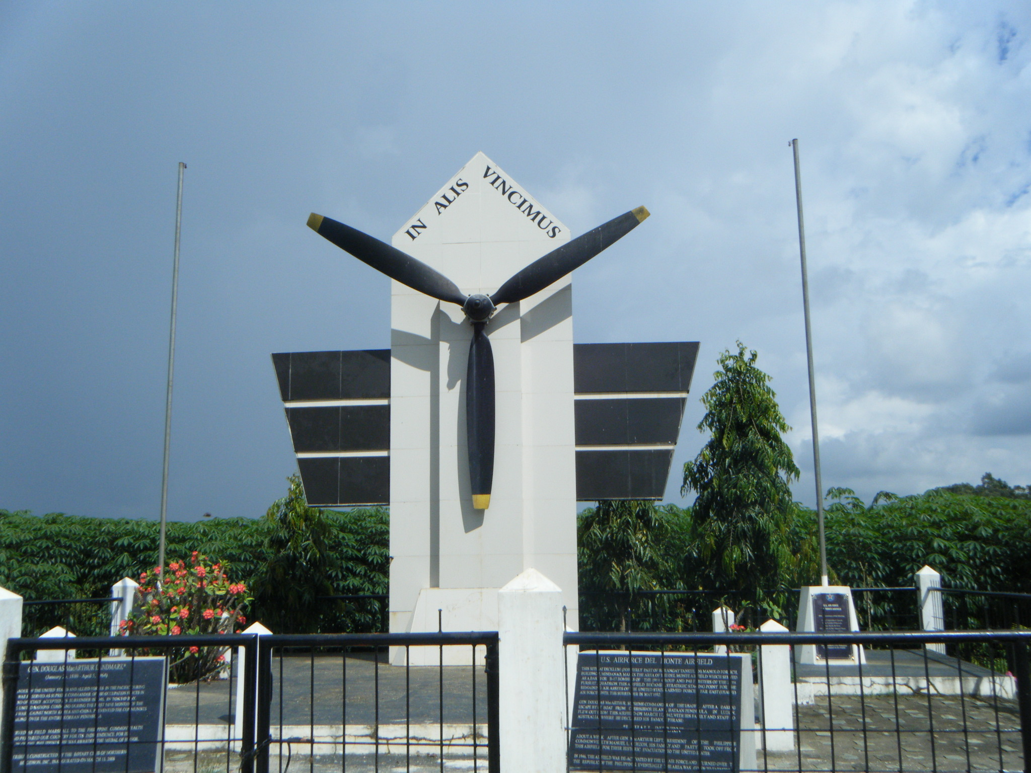 This monument is in Diklum,Bukidnon in Mindanao. It was the site of the WW II Del Monte Airfield from which MacArthur was evacuated to Australia from The Philippines after the fall of Corregidor and Bataan.